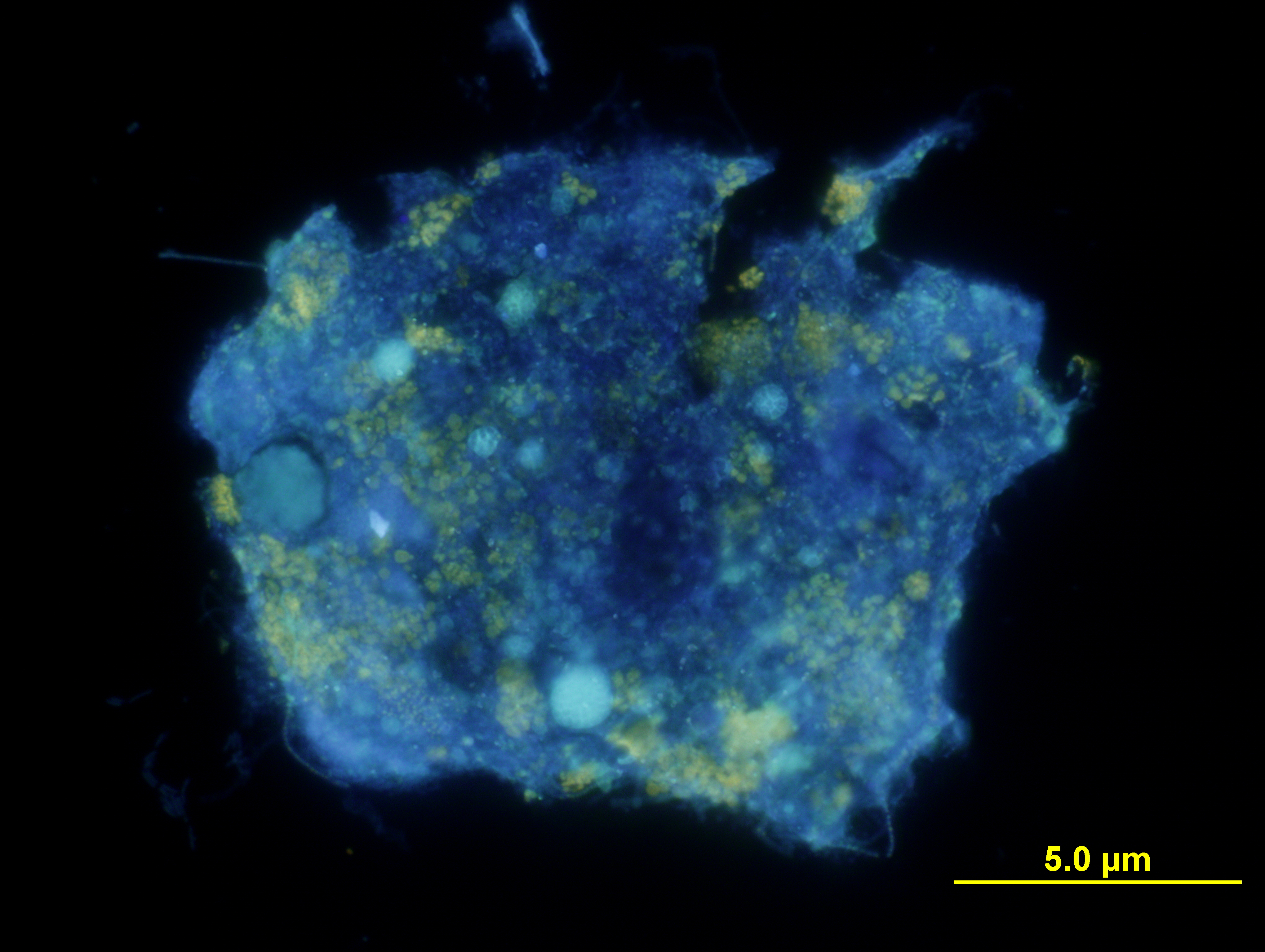 Intracellularly stored poly phosphorus (Poly-P) and polyhydroxy-alkanoates (PHA) are the primary targets used to identify phosphorus accumulating organisms (PAOs). The detection of intercellularly stored Poly-P itself is far more reliable than PHA. Polymer staining techniques such as 41,6-diamidino-2-phenylindole (DAPI) are used to identify the presence of PAOs within wastewaters activated sludge. DAPI, a dying molecule, exhibits a maximum fluorescence emission of around 450 nm (blue), when bound to Poly-P, a bathochromic shift in the emission to 525-550 nm occurs, exhibiting a yellowish color. DAPI stains polymeric ions, such as DNA and lipids. DAPI-DNA fluorescence appears blue, whereas both DAPI-Poly-P and DAPI-lipids resonate yellow. To differentiate between the DAPI-poly-P and DAPI-lipids, biomass samples are collected under aerobic conditions where PHA reserves are thought to have been thoroughly consumed. Any yellow dots in this image represent microorganisms that have consumed orthophosphate as a means for binary fission. DAPI-poly-P interaction is extraordinarily precise with the ability to generate an accurate quantum yield from microscopic observation.